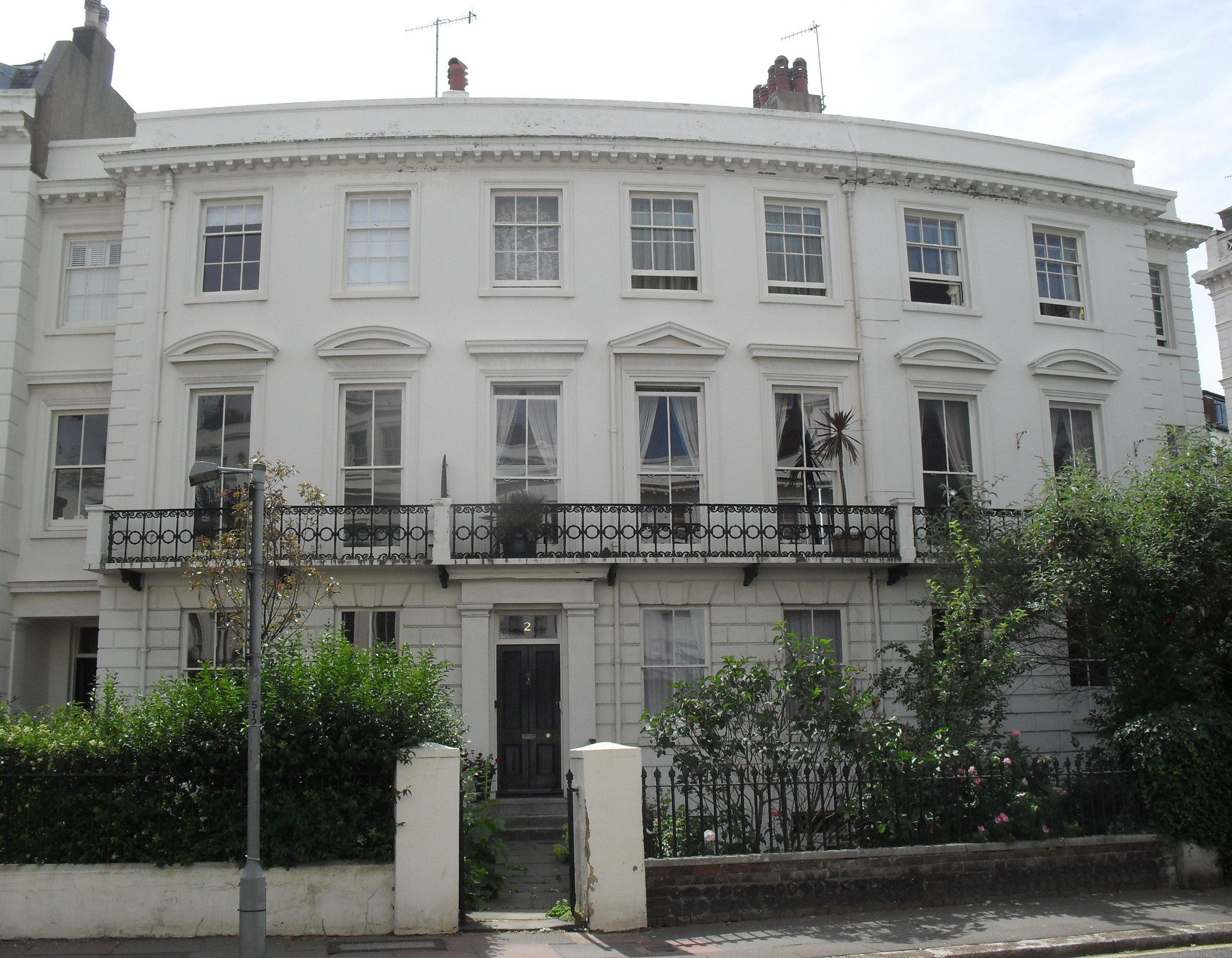 1–3 Montpelier Crescent, Brighton, City of Brighton and Hove, England. Listed at Grade II by English Heritage (NHLE Code 1380360)